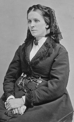 photo of Dr. Charlotte Denman Lozier